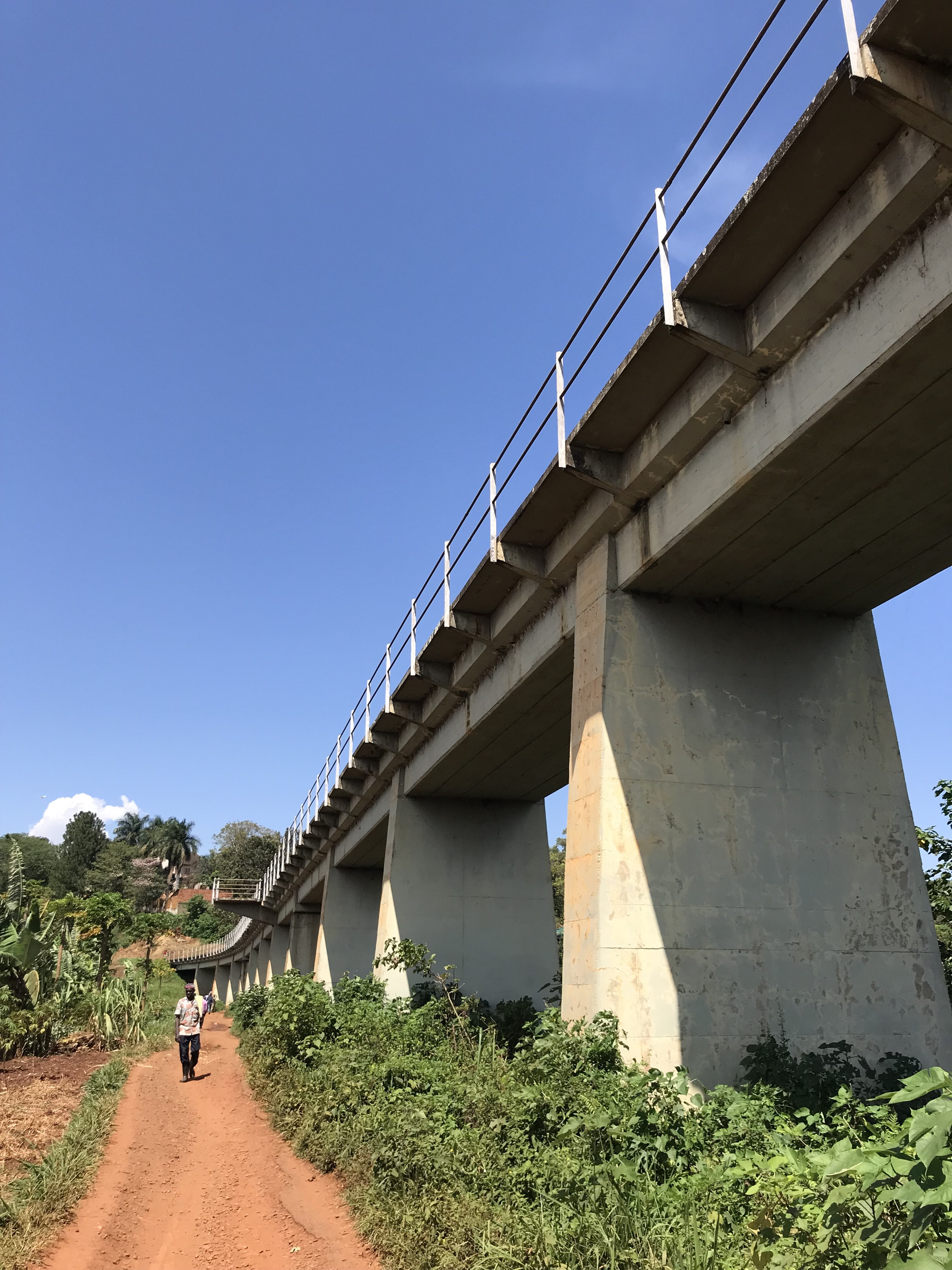 A man walks along a road parallel to the train bridge in Jinja town, Uganda. This is an image with the theme "Africa on the Move or Transport" from: Uganda